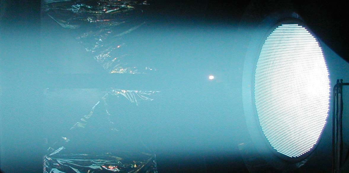 NEXIS DM1a ion engine